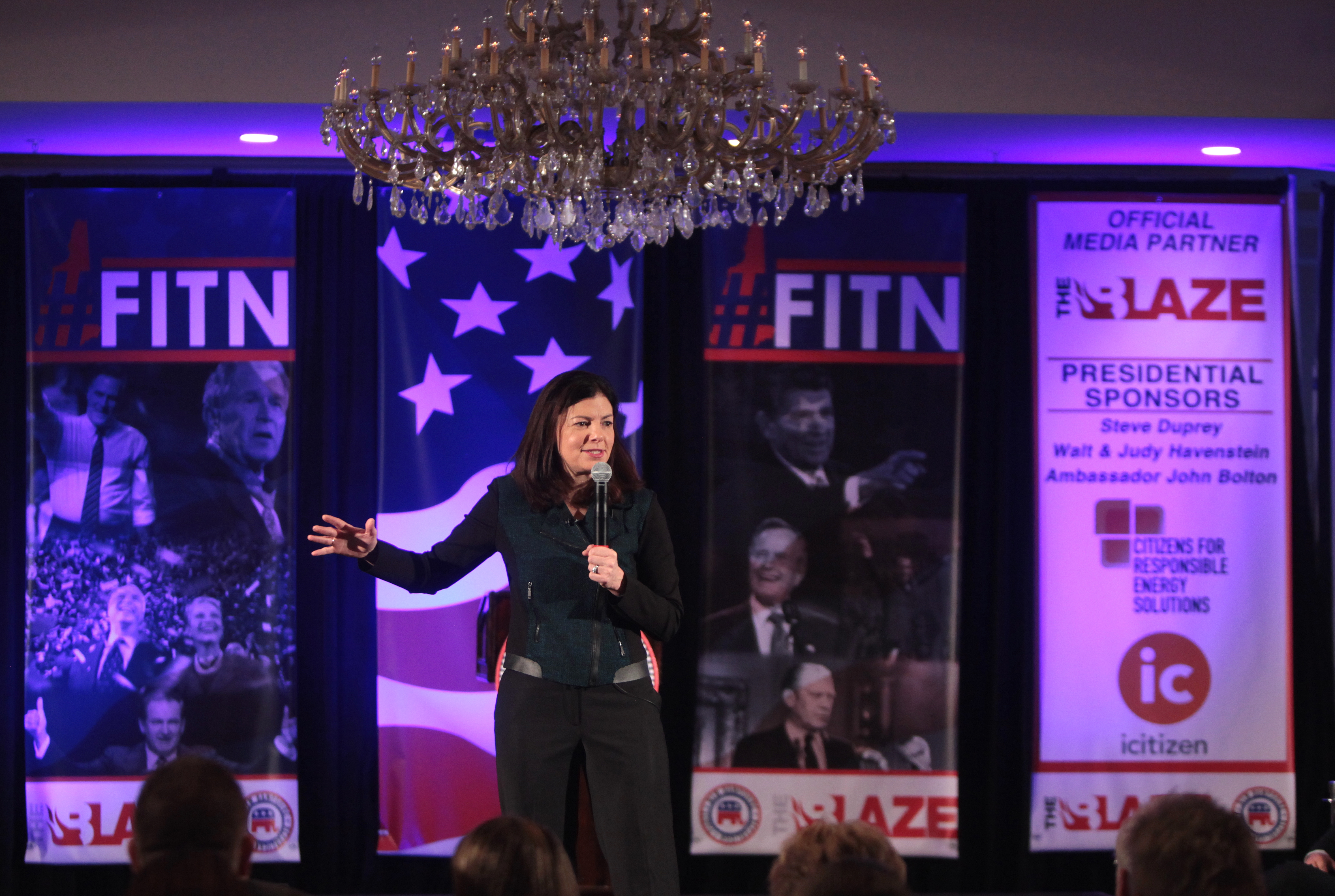 @ Nashua, New Hampshire